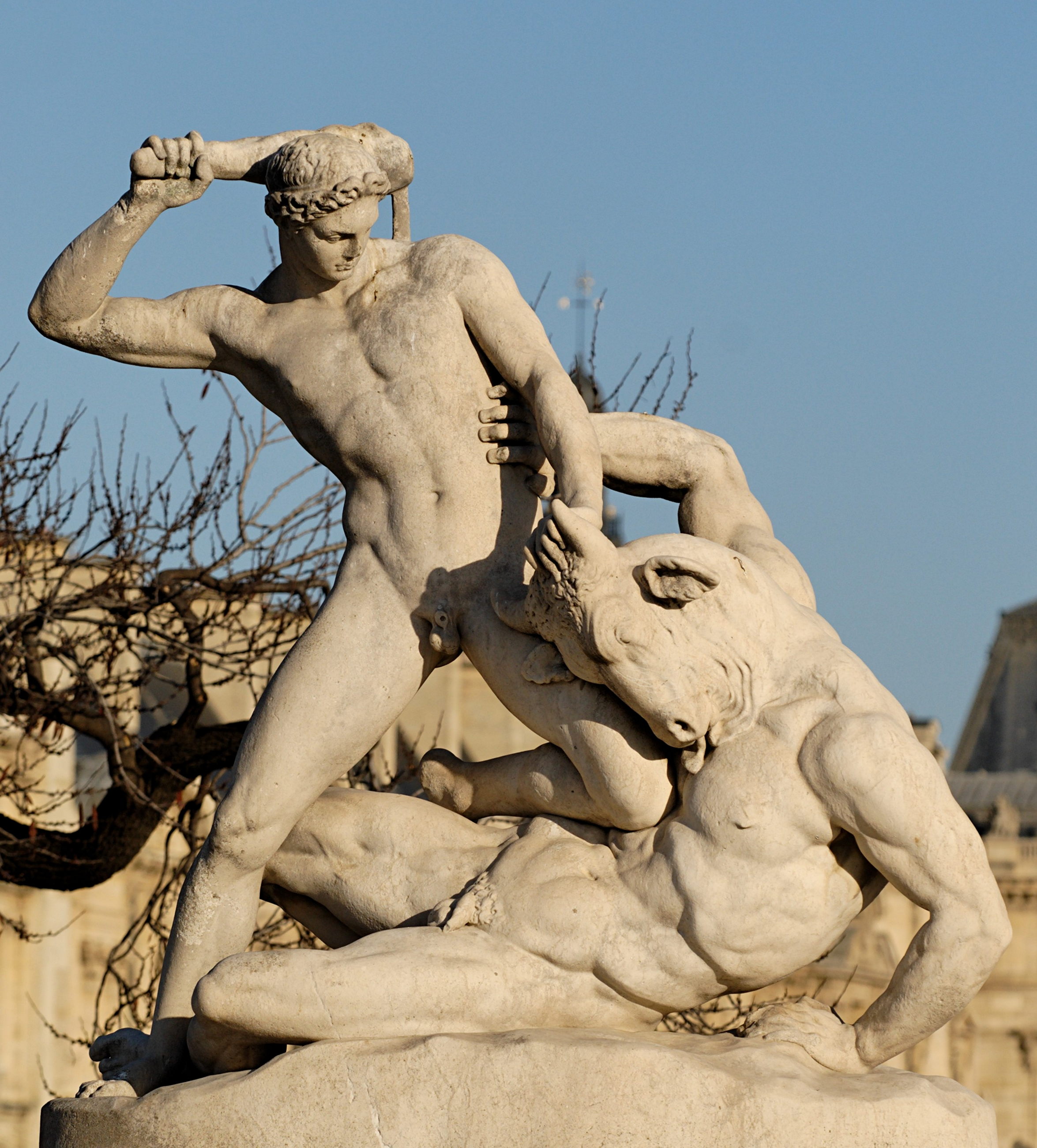 Theseus fighting the Minotaur by Étienne-Jules Ramey (French, 1796–1852). Marble, 1826. In the Tuileries Gardens, Paris.